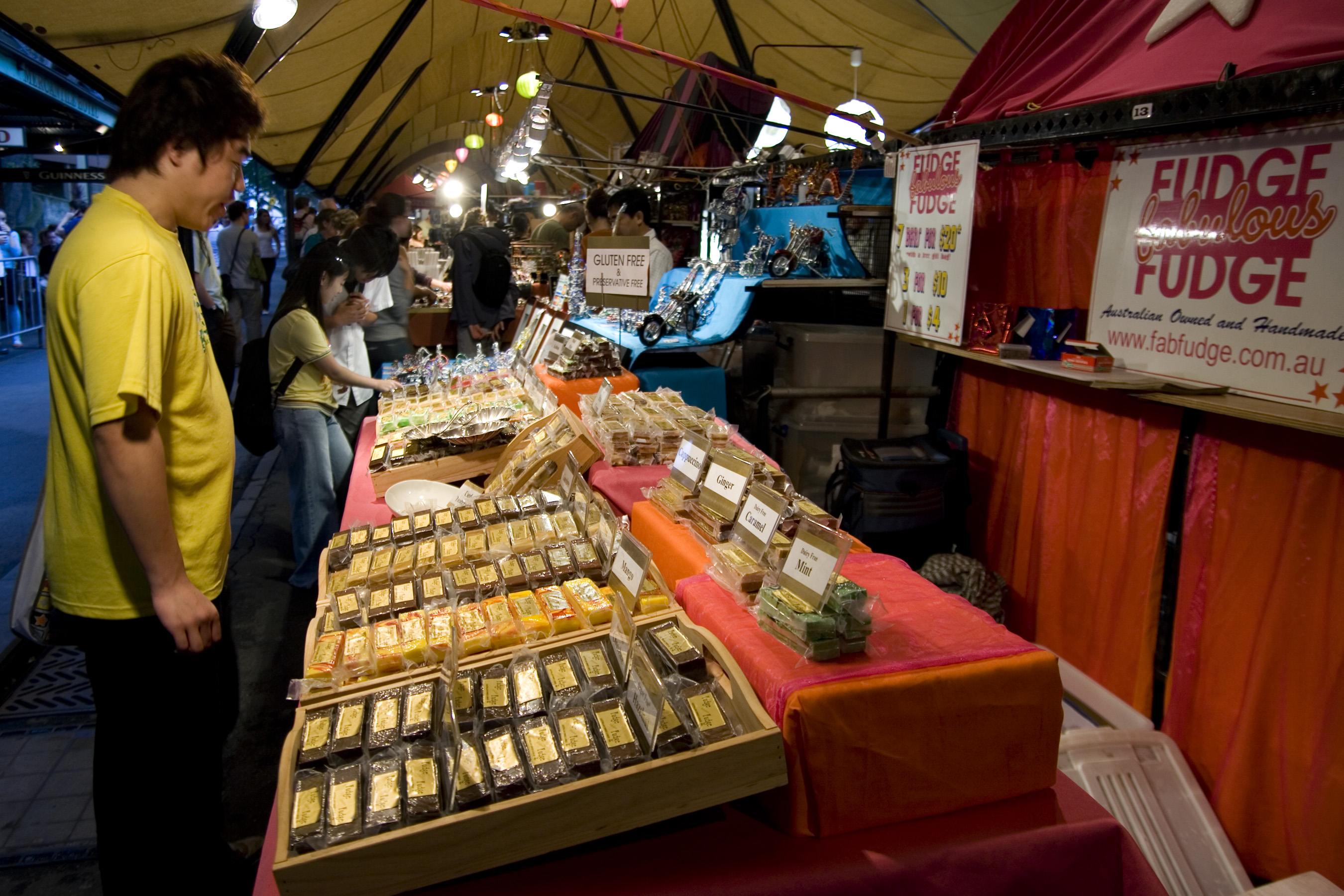 Market at Sydney Rocks